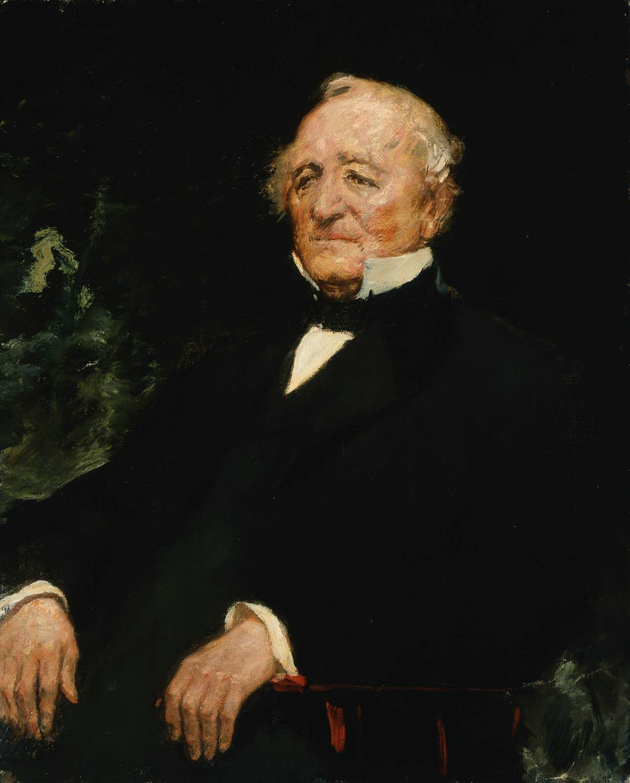 Oil on canvas portrait, Identified by curators at the Museum of Fine Arts, Boston, as Massachusetts politician Charles Sumner, circa 1870. The painting descended in the Hunt family until it was given to the Museum of Fine Arts, Boston. Courtesy of the Museum of Fine Arts, Boston, Massachusetts.